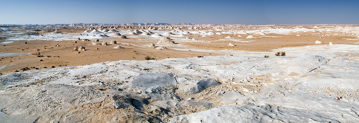 The White Desert - between Farafra and Bahariya oasis - western Egypt. own photo - feb 10, 2005 photo: nomo/michael hoefner